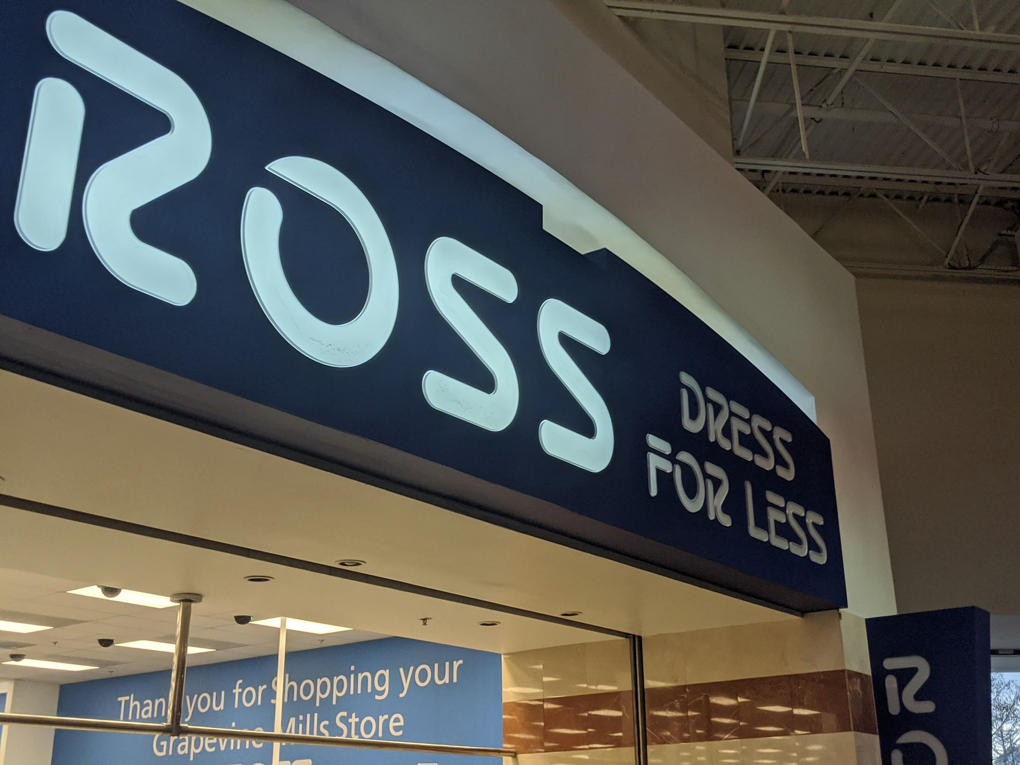 Ross Grapevine Mills